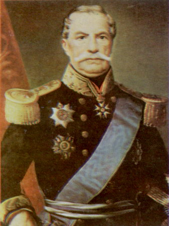 Portrait of Antonios Kriezis (1796-1865), prime minister of Greece. War Museum, Athens, Greece.